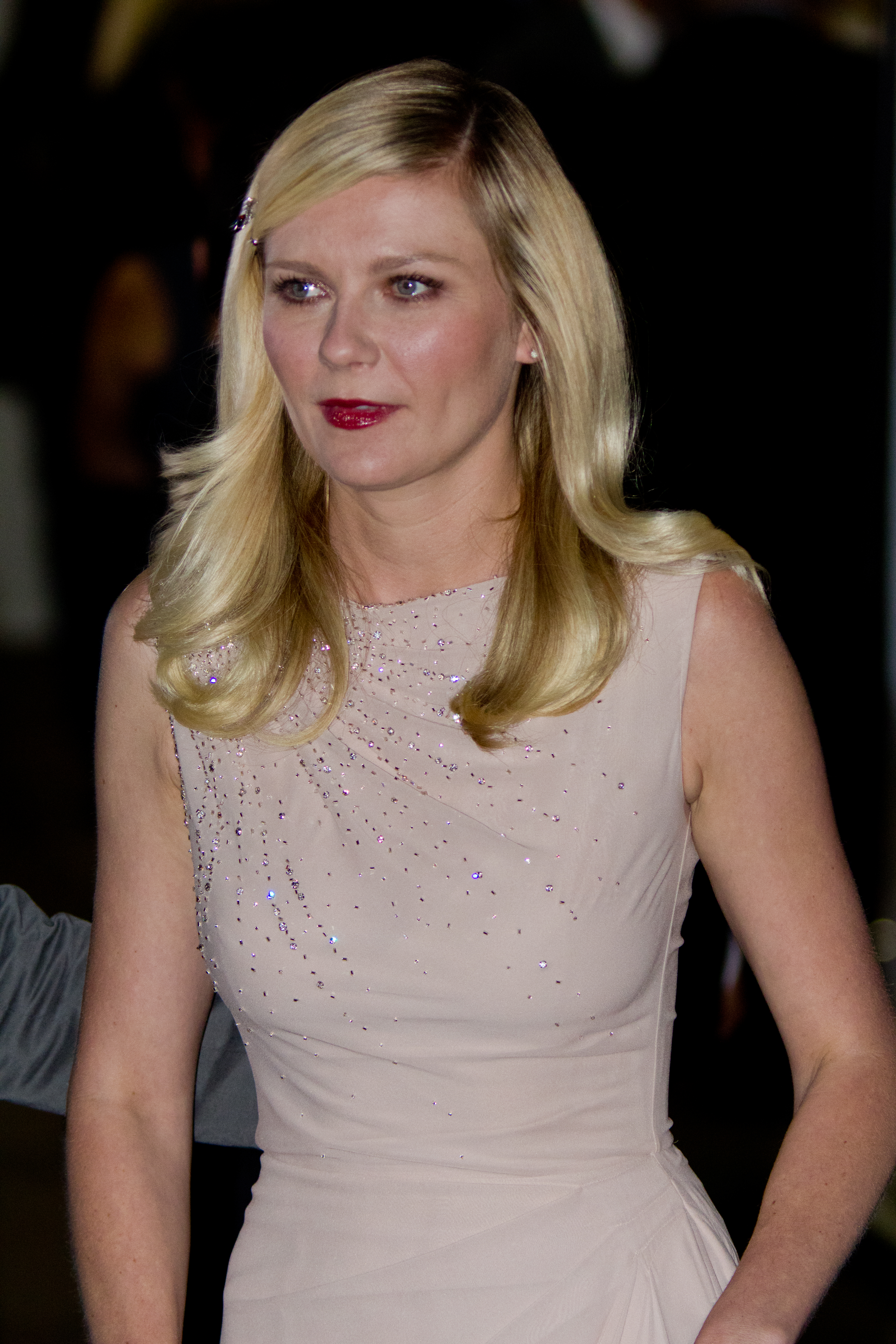 Kirsten Dunst at the 2012 Toronto International Film Festival premiere of "On the Road"